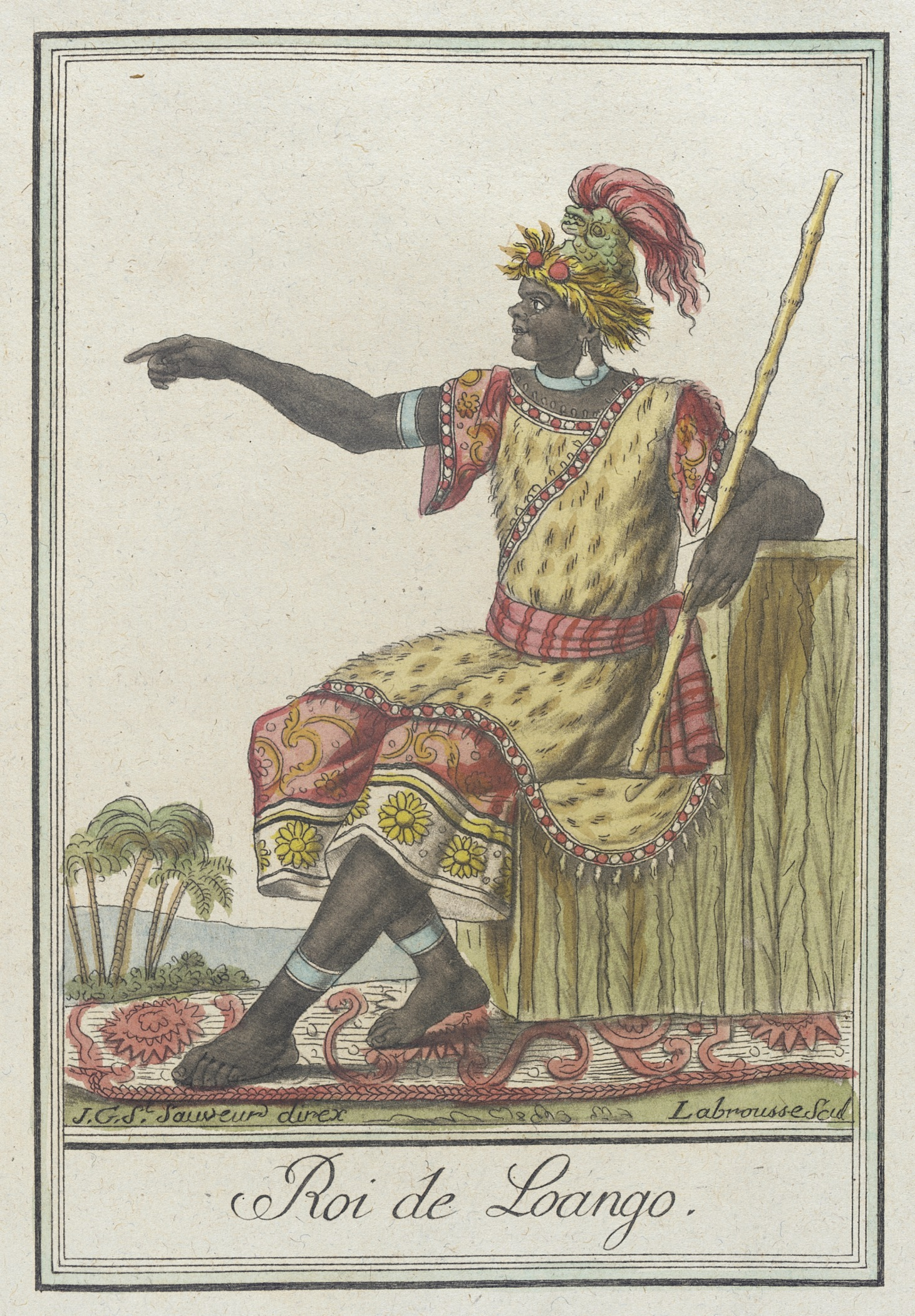 France, circa 1797 Prints; engravings Hand-tinted engraving on paper Sheet: 10 1/4 x 7 5/8 in. (26.04 x 19.375cm); Composition: 8 3/8 x 6 in. (21.27 x 15.24 cm) Costume Council Fund (M.83.190.310) Costume and Textiles